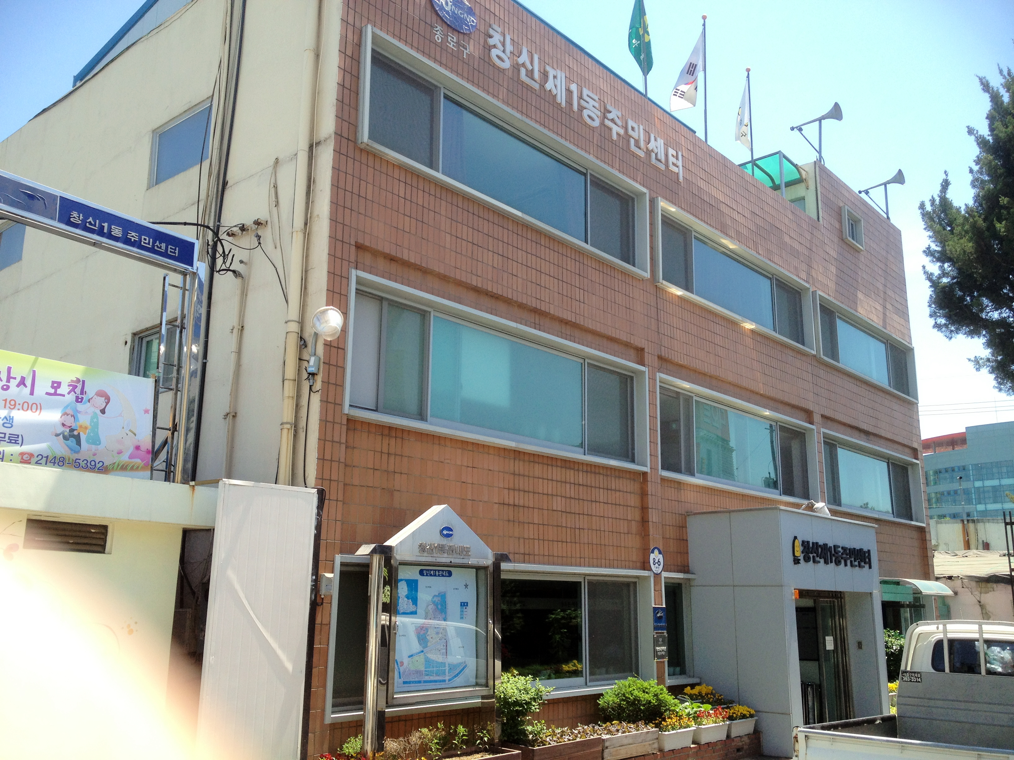 Changsin 1-dong Comunity Service Center(Jongno-gu)